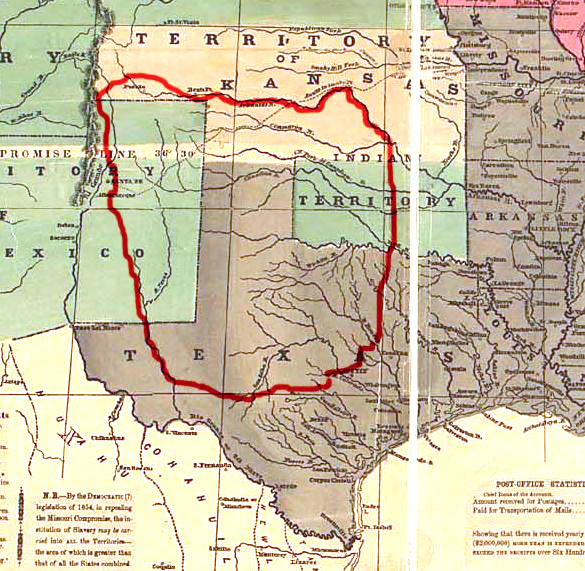 Map showing approximately the area, known as Comancheria, occupied by the various Comanche tribes prior to 1850. It's made using "Reynolds's Political Map of the United States" (1856) from Library of Congress collection (public domain).